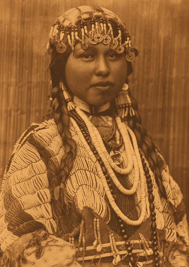 Wishram Bride. Wishram woman, photo by Edward Curtis.